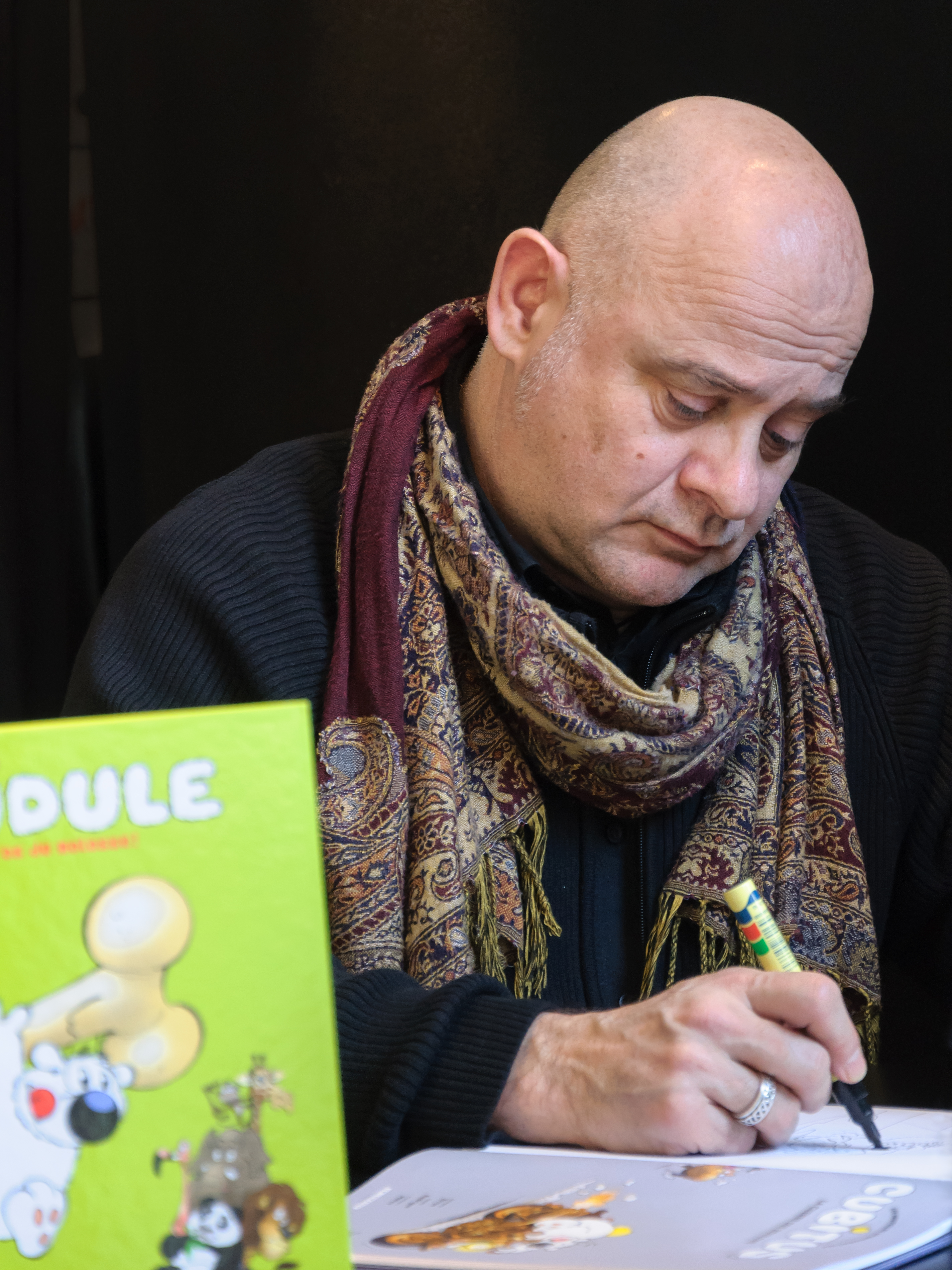 Michel Rodrigue, at the 40th Angoulême International Comics Festival, 2013.